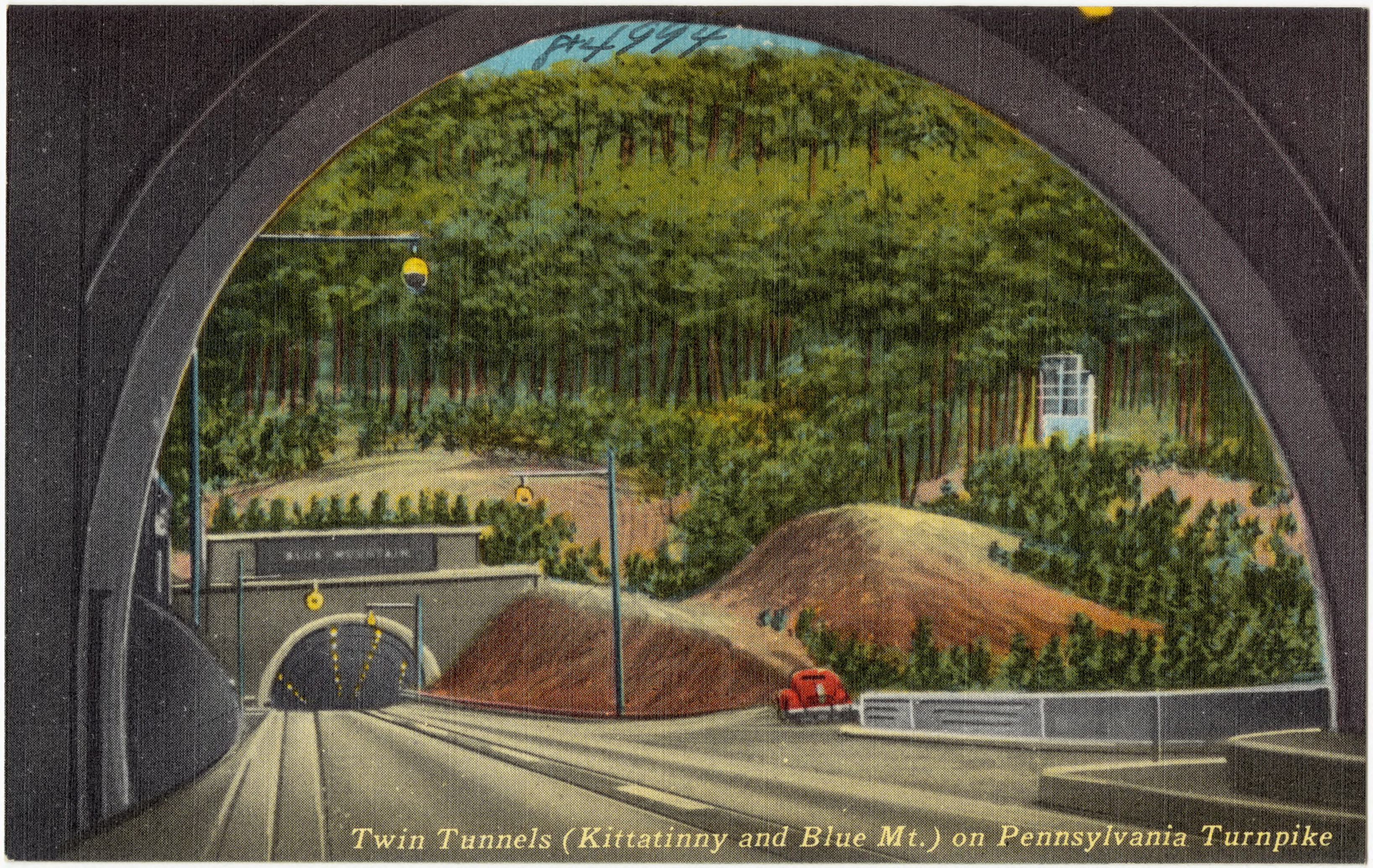 Title: Twin Tunnels (Kittatinny and Blue Mt.) on Pennsylvania Turnpike Subjects: Roads Places: Pennsylvania Notes: Title from item. Extent: 1 print (postcard) : linen texture, color ; 3 1/2 x 5 1/2 in. Accession #: 06_10_017970